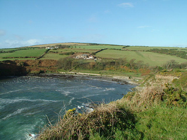 Port Grenaugh - Isle of Man. The beach at Port Grenaugh from the nearby Promontory Fort site.